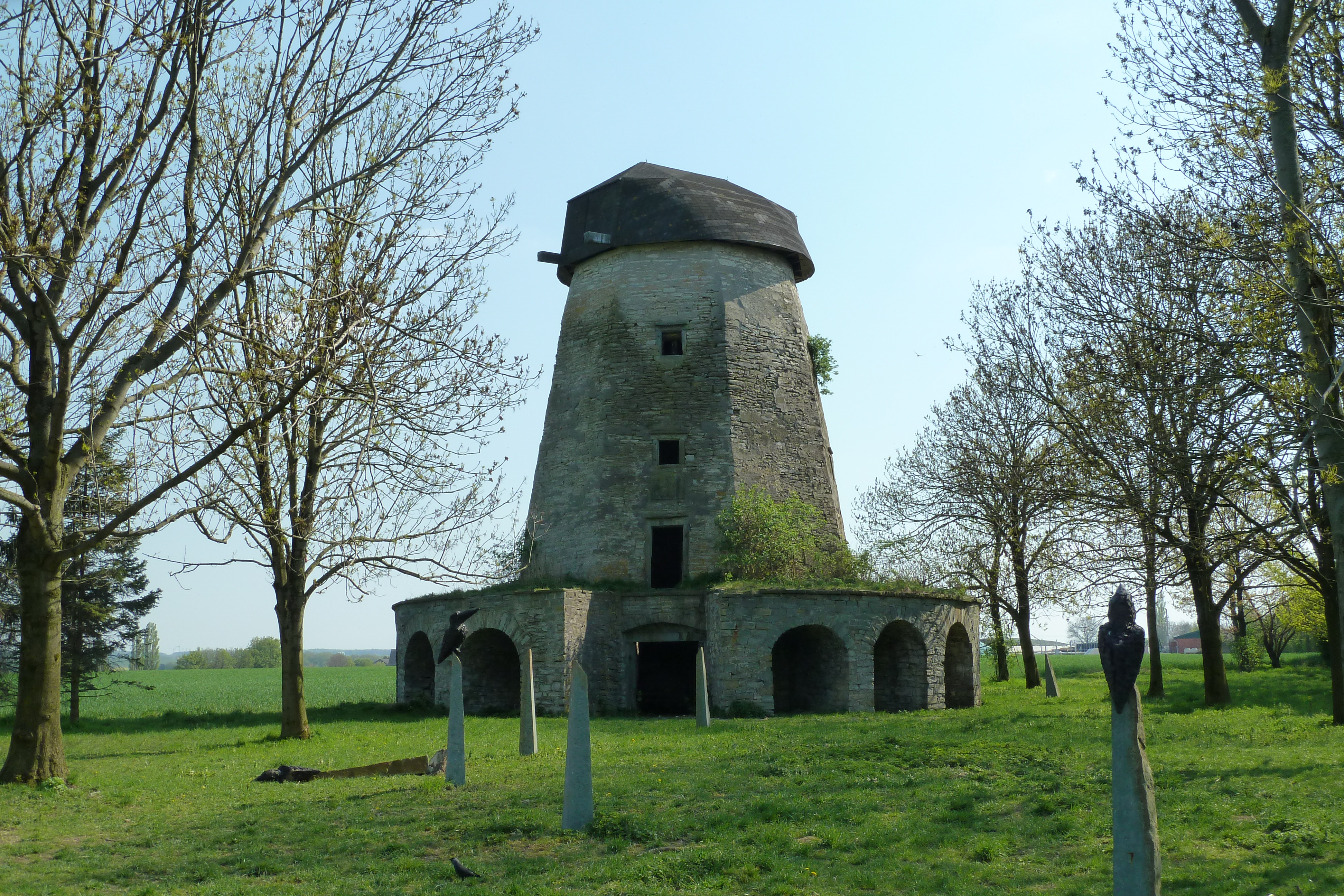 The remains of a Windmill near Anröchte-Klieve.